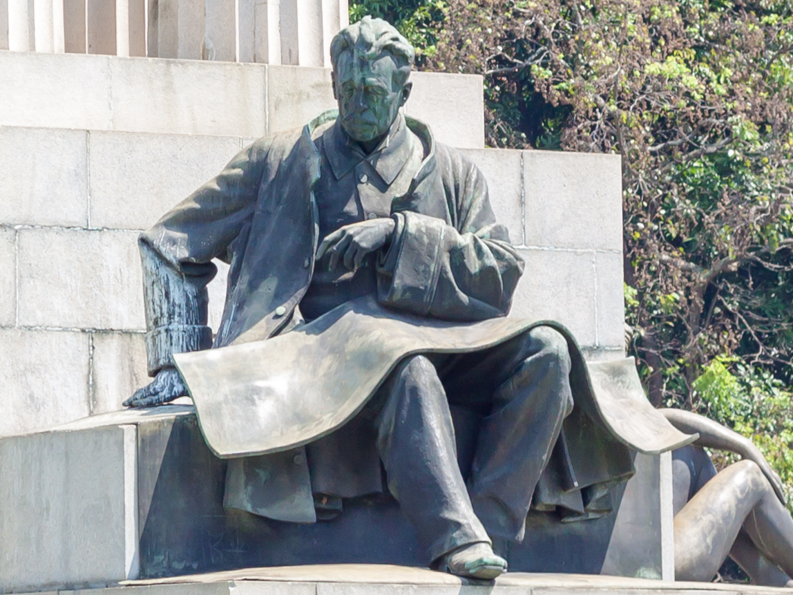 Monument to Ramos de Azevedo, by Galileo Emendabili (São Paulo, Brazil)